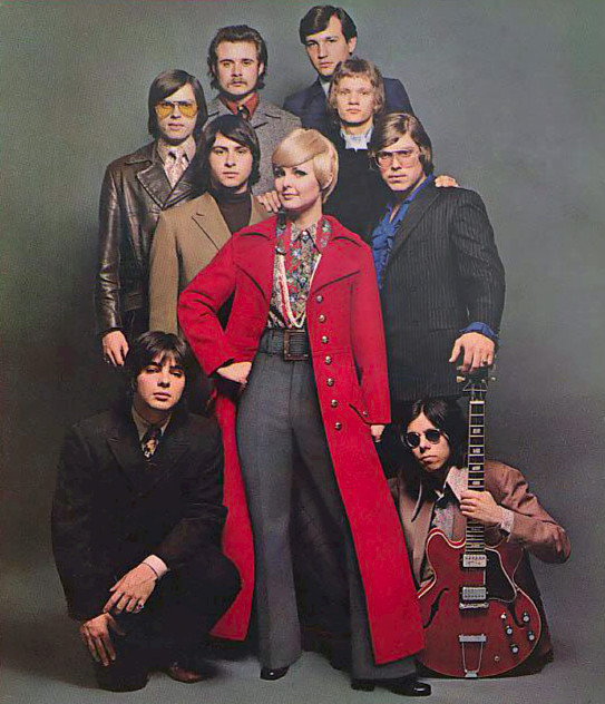 Photo ad for clothing picturing the 1910 Fruitgum Company. The ad ran in Seventeen magazine in October 1969.